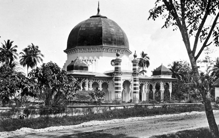 Mosque